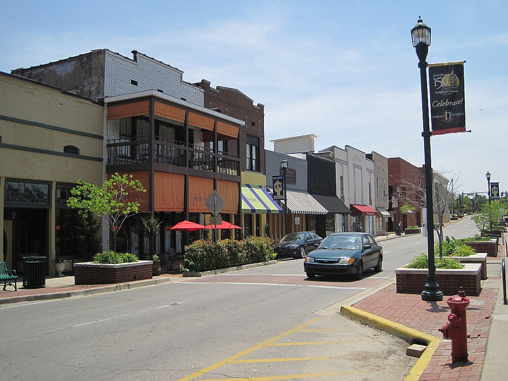 Downtown Jonesboro, Arkansas